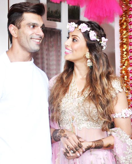 Bipasha Basu Karan Singh Grover at their Mehndi